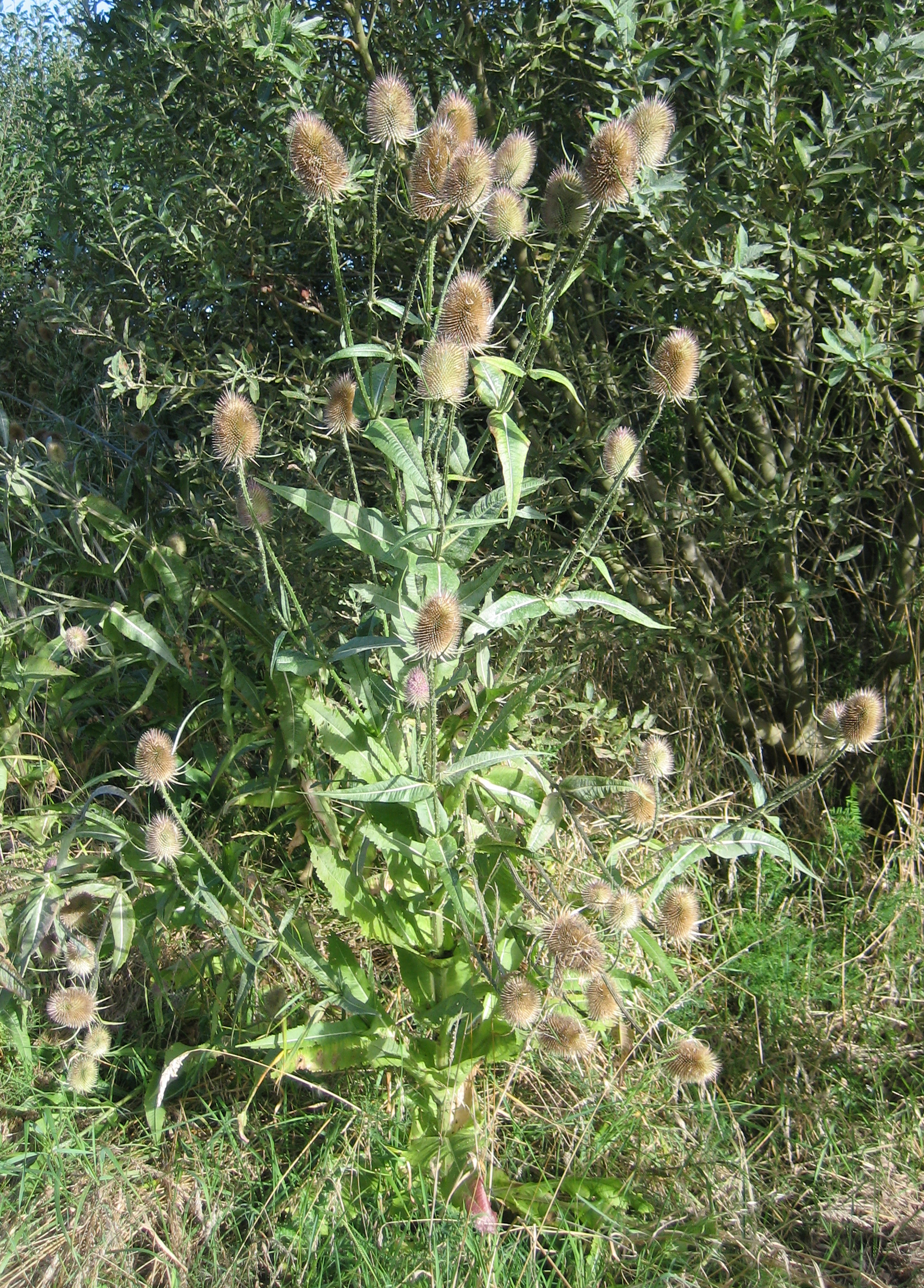 Dipsacus fullonum, St Mary's Wetland, Northumberland, UK